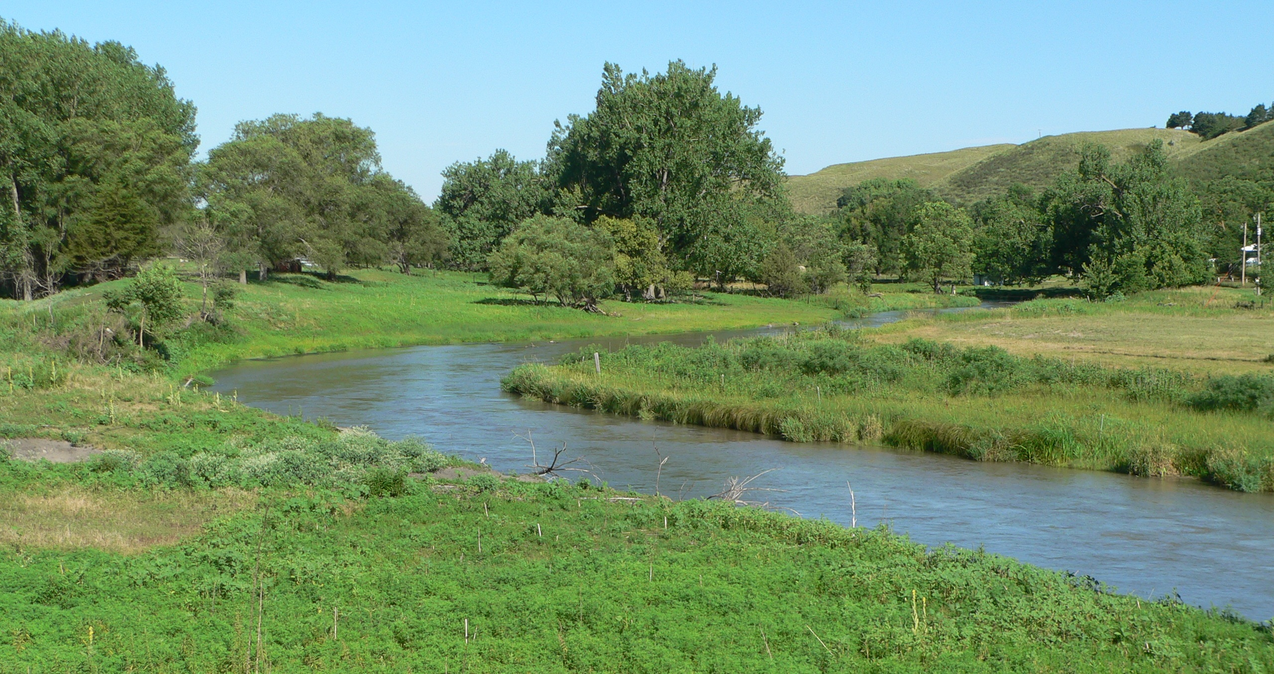 Middle Loup River, looking upstream from crossing at Seneca, Nebraska.